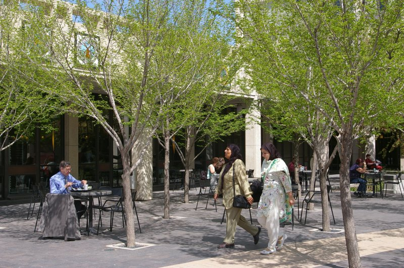 taken may 8th 2007 winnipeg city hall square